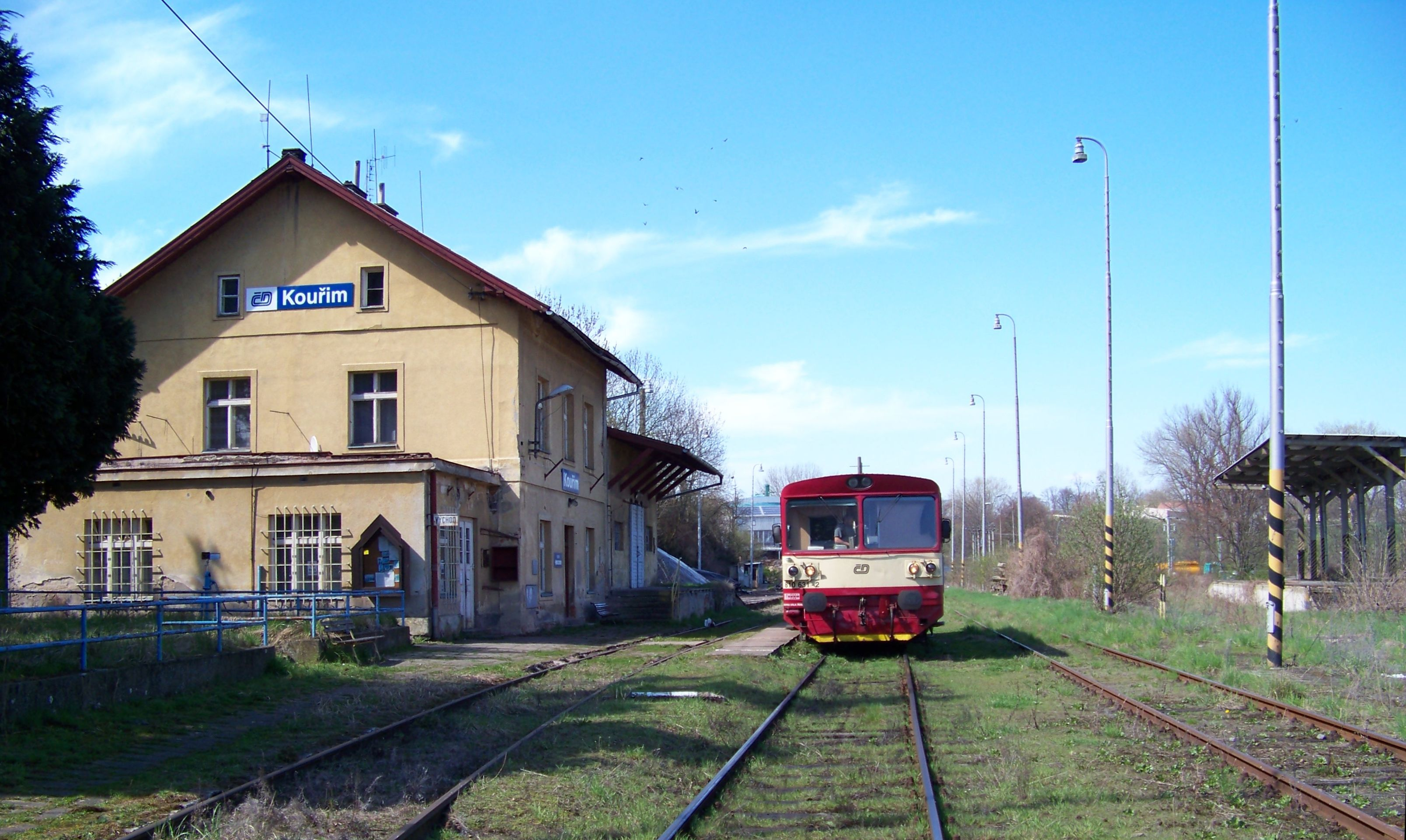 Kouřim, Kolín District, Central Bohemian Region, the Czech Republic. The train station. - Google Maps - Google Earth